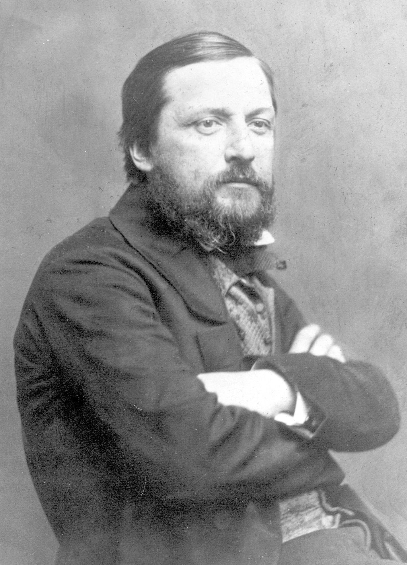 John Fries Frazer (1812-1872), A.B. 1820, A.M. 1833, M.D. 1832, portrait photograph. Penn professor of Natural Philosophy and Chemistry